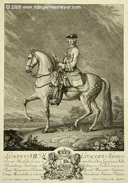 Georg Adam Eger - picture of landgraf Ludwig VIII